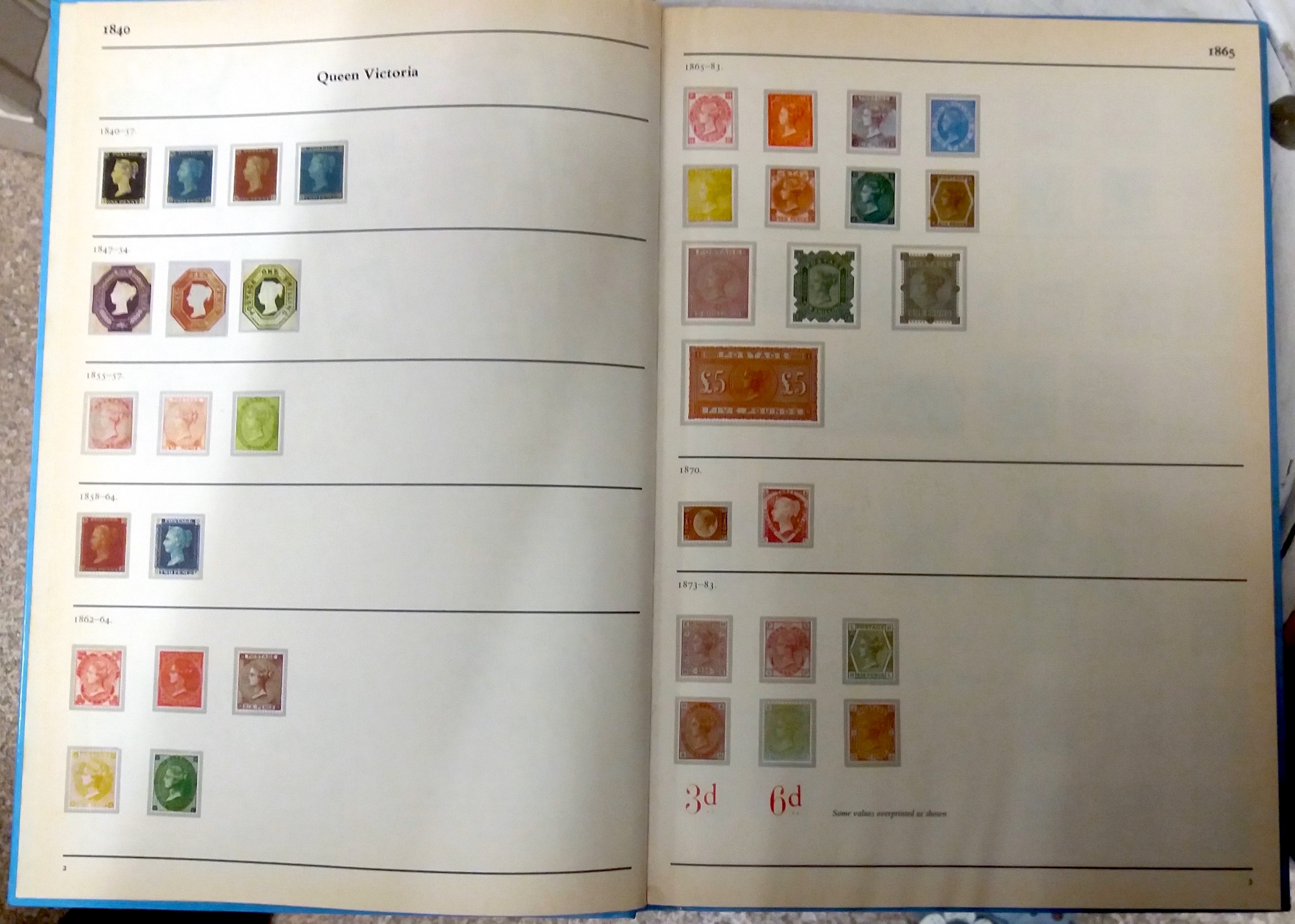 Stanley Gibbons Stamp Bug Album, Queen Victoria pages